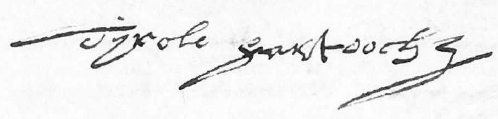 Dijrck Hartoochz, Dirk Hartog's signature from a freight contract for his ship Dolfijn 11 december 1612.